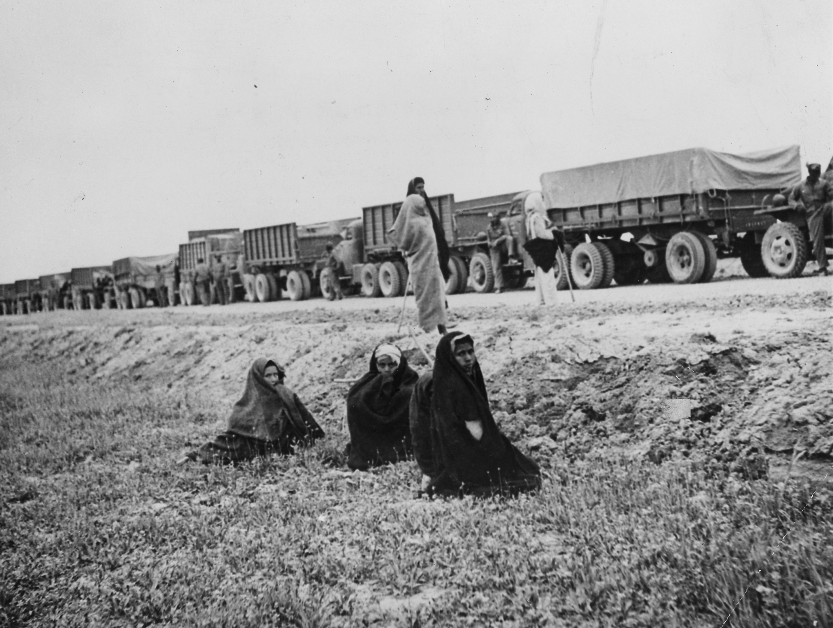 Iranian women watch an Allied supply convoy halted somewhere on the Corridor